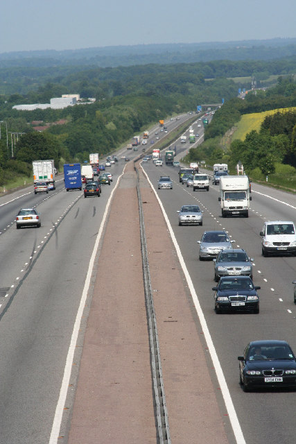 M3 at Basingstoke. A roller coaster motorway; the M3 at Basingstoke, looking toward London